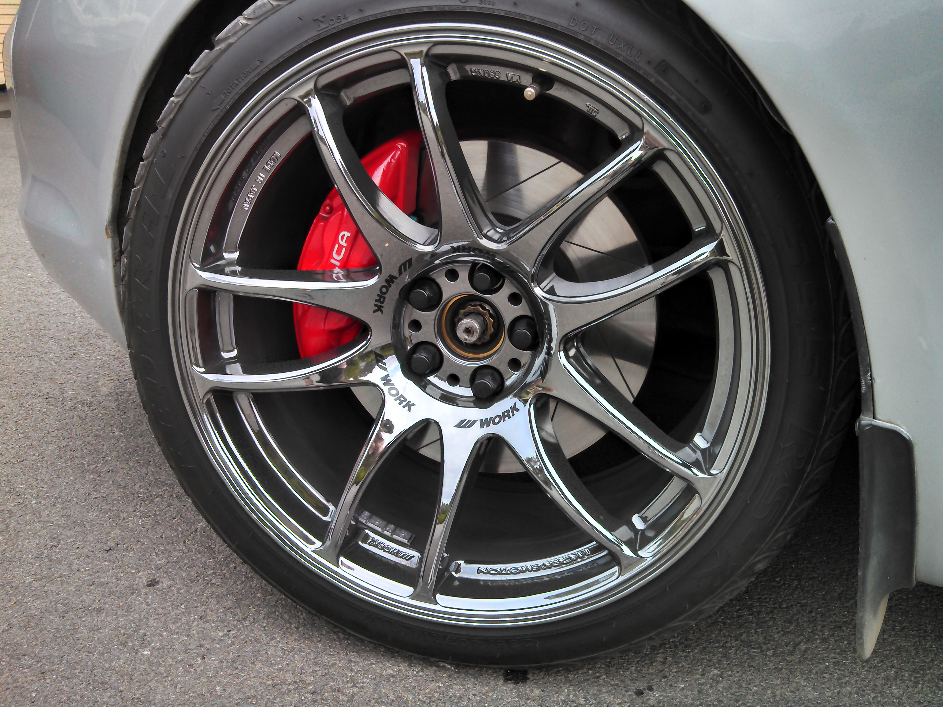 Work Emotion CR Kiwami in Work Metal Buff 18x9.5" (deep concave)